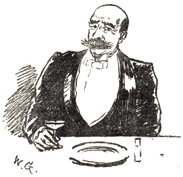 caption:"'Orthodox' is a grandiloquent word." jpg of image on print page 208 of File:Diary of a Nobody.djvu